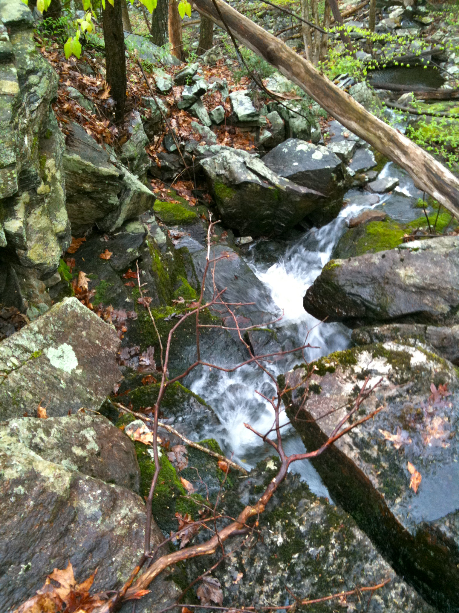 Whitestone Cliffs Trail. Blue-Blazed CFPA "loop" foot path in Mattatuck State Forest. Whitestone Cliffs Trail. Blue-Blazed CFPA "loop" foot path in Mattatuck State Forest. Whitestone Cliffs Trail view with seasonal brook.